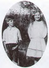 Devid C. Western (youngest recipient of Albert Medal) and Doreen Ashburnham (youngest recipient woman of Albert Medal and George Cross).